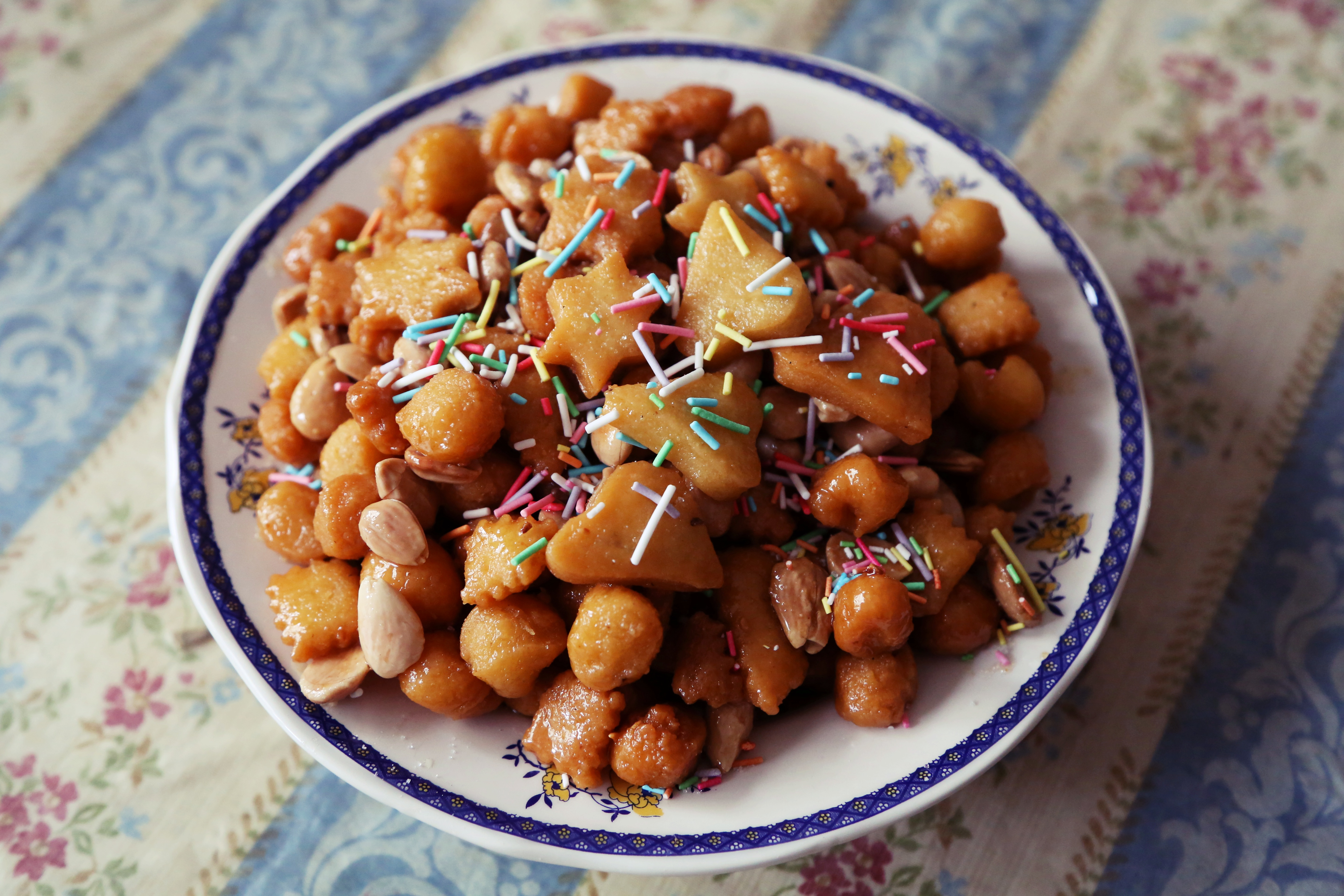 A saucer of purceddhruzzi, typical christmas dessert plate of the Salento region in southern Italy.